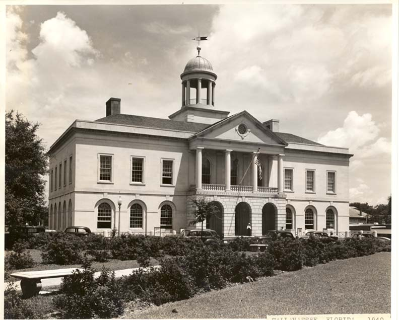 Tallahassee, Florida U.S. Post Office and Court House (1937) Completed in 1936. Architect: Eric Kebbon Still in use by the U.S. Bankruptcy Court for the Northern District of Florida.